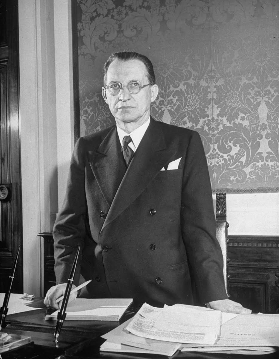 Alcide De Gasperi